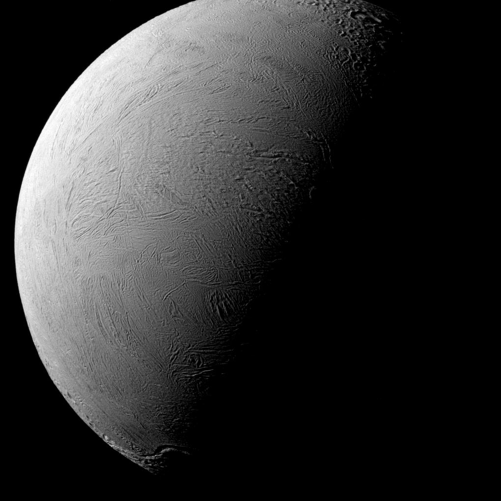 PIA18362: Tilted Terminator - Enceladus - Moon of Saturn NASA's Cassini spacecraft captured this view of Saturn's moon Enceladus that shows wrinkled plains that are remarkably youthful in appearance, being generally free of large impact craters. When viewed with north pointing up, as in this image, the day-night boundary line (or terminator) cuts diagonally across Enceladus, with Saturn approaching its northern summer solstice. The lit portion on all of Saturn's large, icy moons, including Enceladus (313 miles or 504 kilometers across) and Saturn itself, is now centered on their northern hemispheres. This change of season, coupled with a new spacecraft trajectory, has progressively revealed new terrains compared to when Cassini arrived in 2004 (see PIA06547), when the southern hemisphere was more illuminated. This view looks toward the leading hemisphere of Enceladus. The image was taken in green light with the Cassini spacecraft narrow-angle camera on Jan. 14, 2016. The view was acquired at a distance of approximately 49,000 miles (79,000 kilometers) from Enceladus. Image scale is 1,540 feet (470 meters) per pixel. The Cassini mission is a cooperative project of NASA, ESA (the European Space Agency) and the Italian Space Agency. The Jet Propulsion Laboratory, a division of the California Institute of Technology in Pasadena, manages the mission for NASA's Science Mission Directorate, Washington. The Cassini orbiter and its two onboard cameras were designed, developed and assembled at JPL. The imaging operations center is based at the Space Science Institute in Boulder, Colorado. For more information about the Cassini-Huygens mission visit and The Cassini imaging team homepage is at